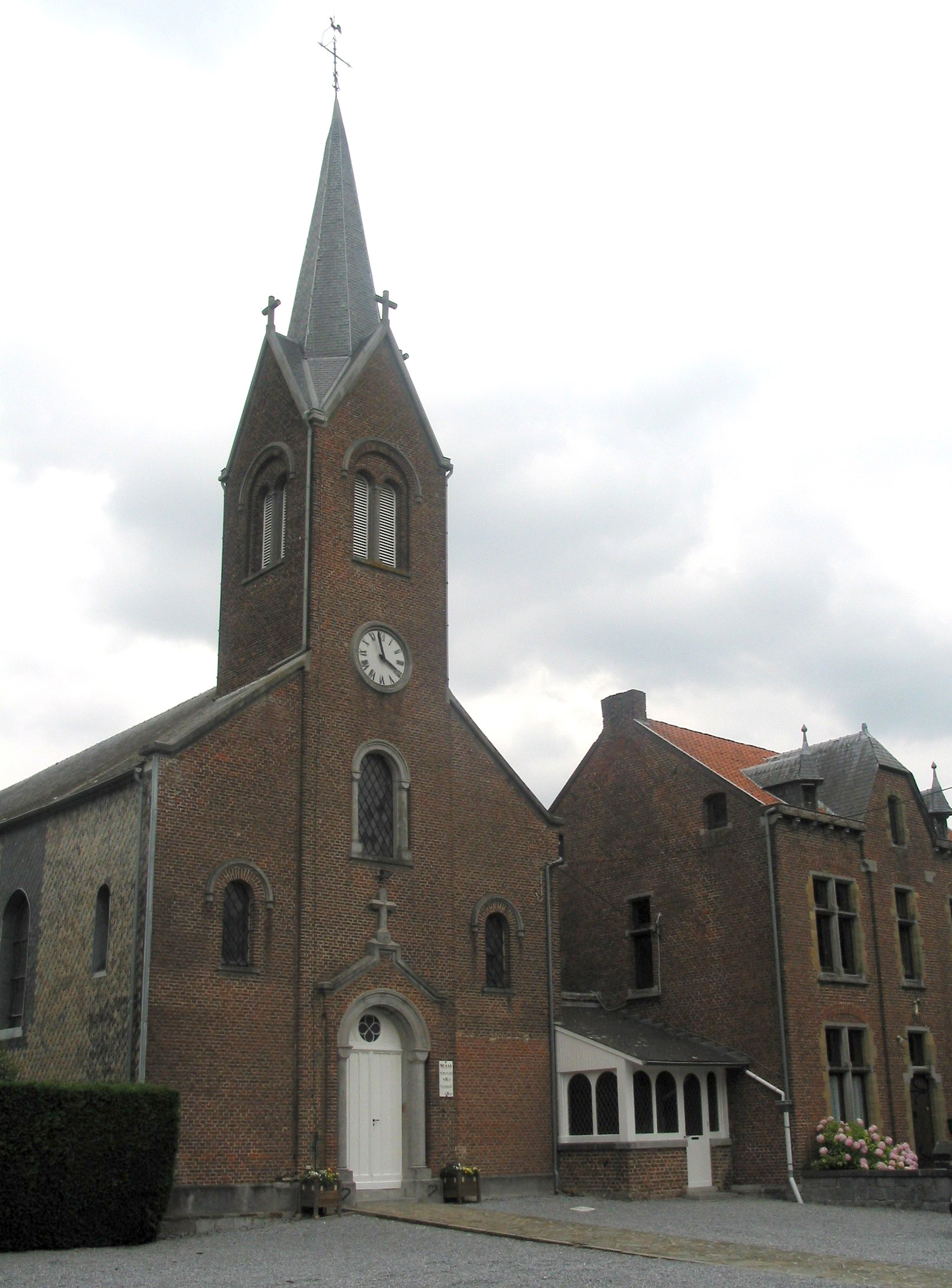 Soheit-Tinlot (Belgium), the church of Saint Maurice (1858).